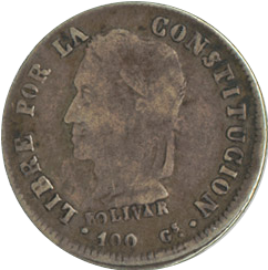 Obverse of Bolivian 2 soles, 1863. Potsoi mint, large stars, small head, KM 135.2. Shows bust of Simón Bolívar right, with legent "LIBRE POR LA CONSTITUCION . 100 Gs ".